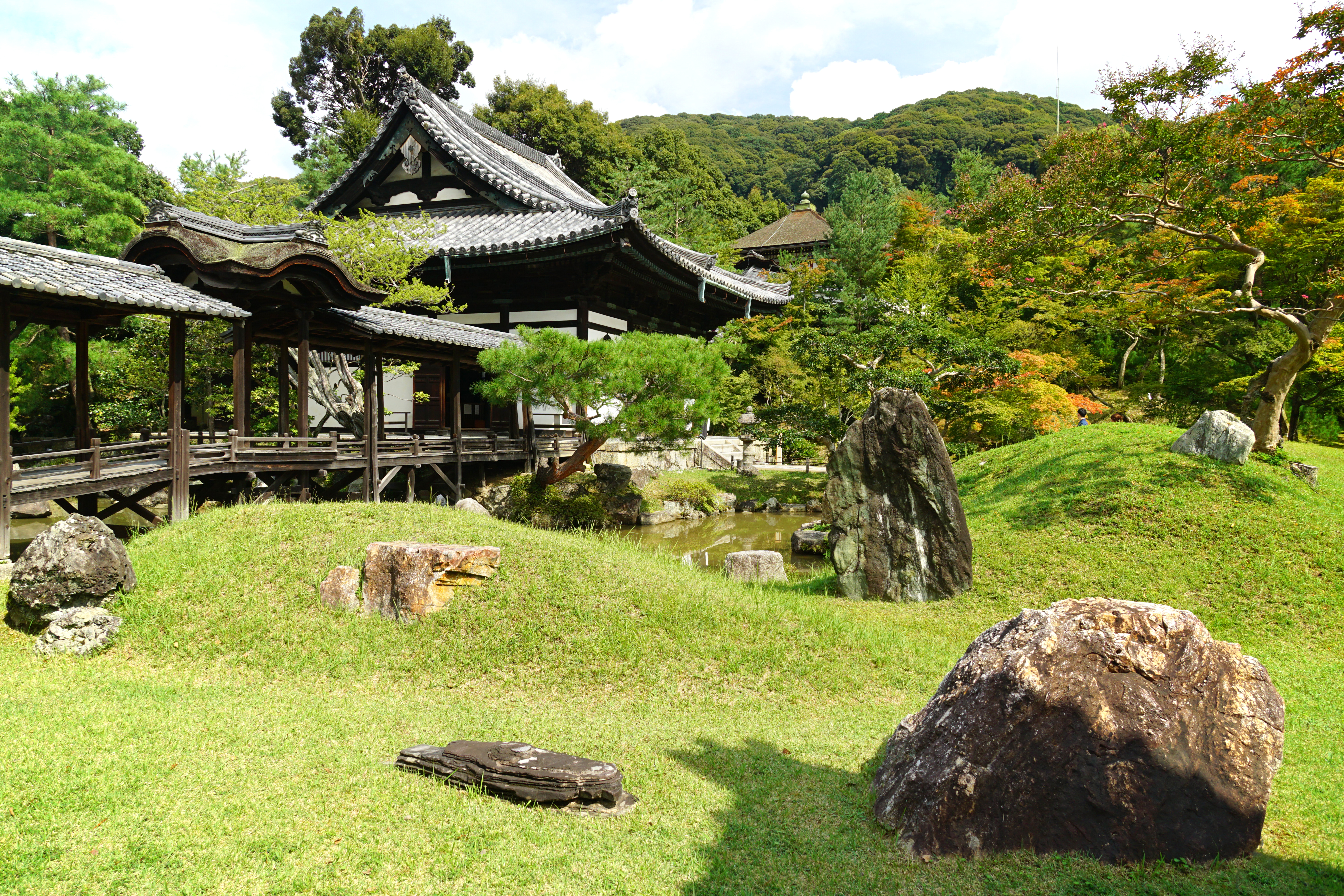 Kōdai-ji in Higashiyama-ku, Kyoto, Kyoto prefecture, Japan